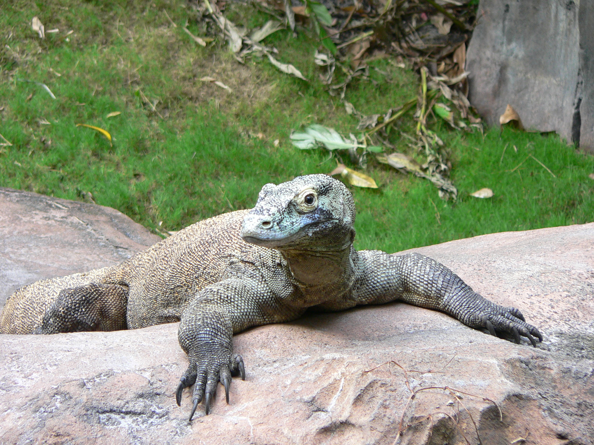 Pictures from Disney's Animal Kingdom: Varanus komodoensis